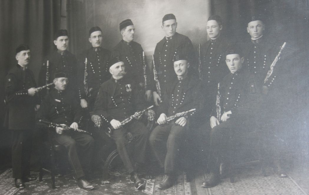 Klarinettenregister Salinenmusik 1930